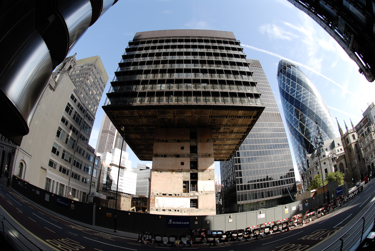 Apparently each floor in this building is supported by the one above, hence the building has to be demolished from the bottom up.